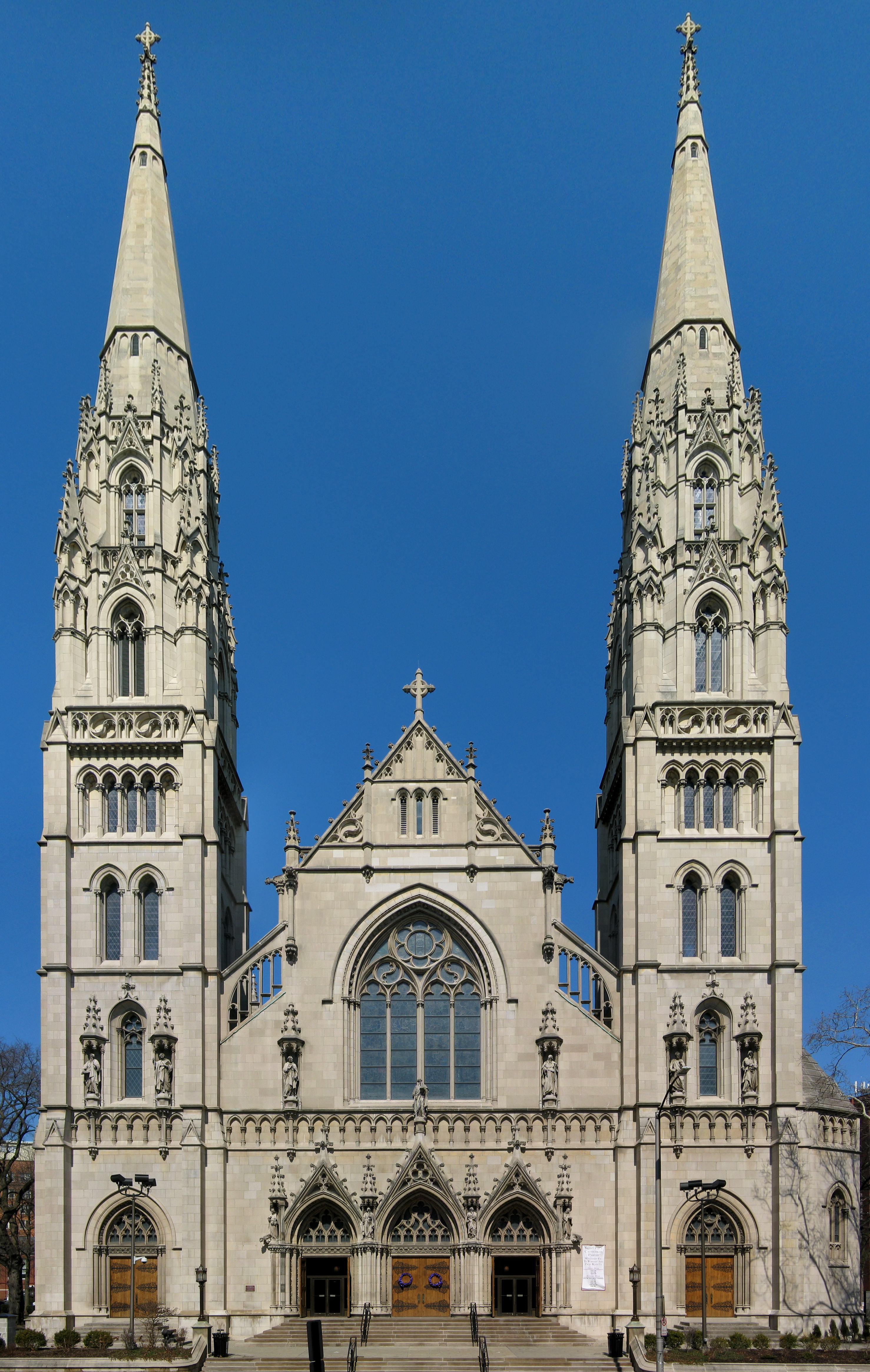 Very-wide-angle view (somewhat distorted) of St. Paul Catherdral, Oakland, Pittsburgh